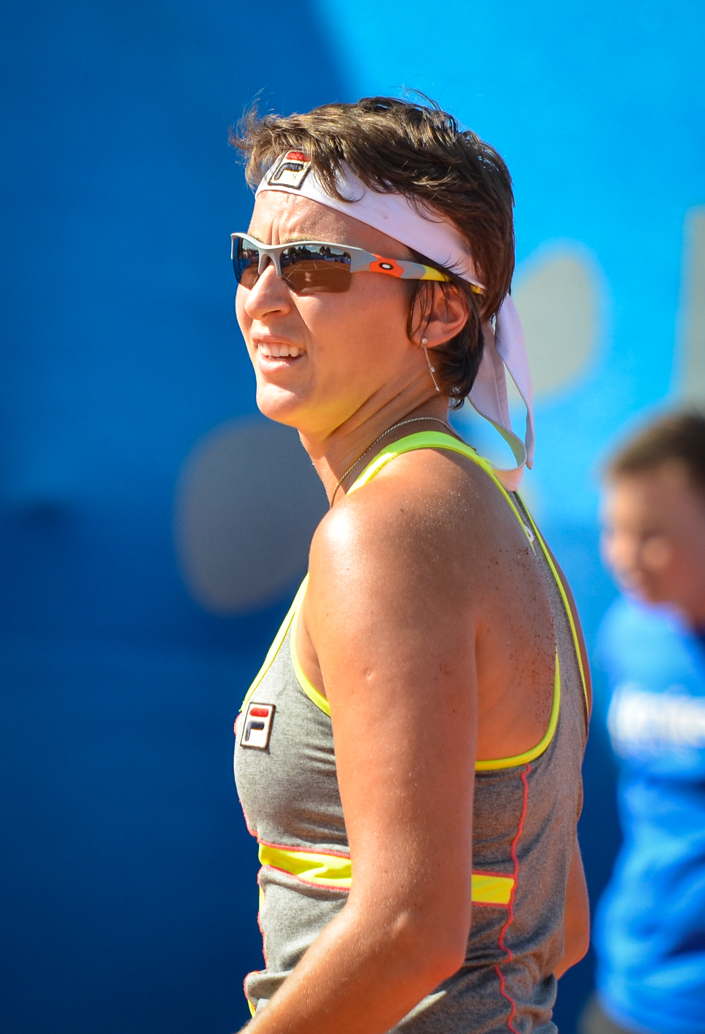 Yaroslava Shvedova during her 2nd round match against Kurumi Nara at the 2014 Nürnberger Versicherungscup on May 20, 2014